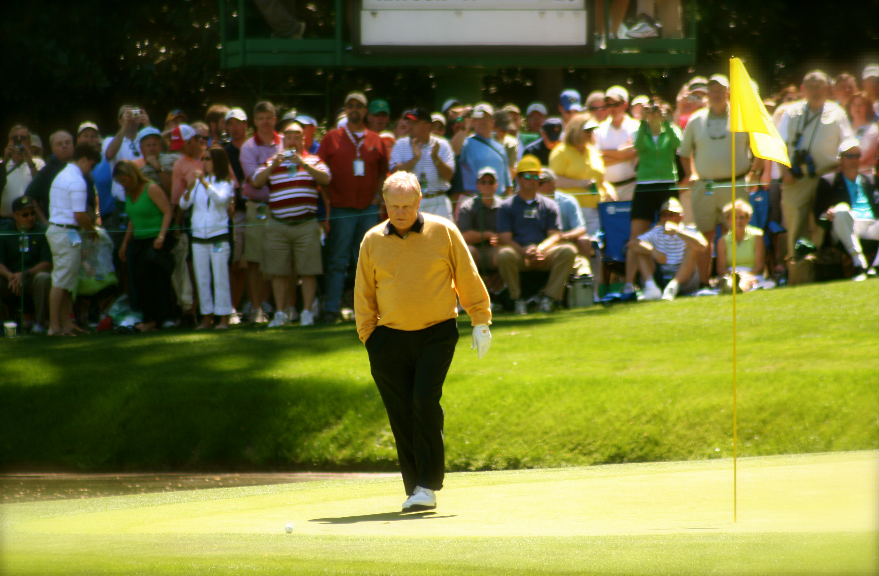 Jack Nicklaus walks up to his ball on the 9th hole of the par-3 course at Augusta National Golf Club during the 2006 par-3 contest. Nicklaus was playing along with Andy North and Tom Watson as a non-competitor in the contest. Nicklaus had his grandson take (and sink) the the putt, a sequence which can be seen on a video posted to youtube, Jack Nicklaus - Augusta 2006.